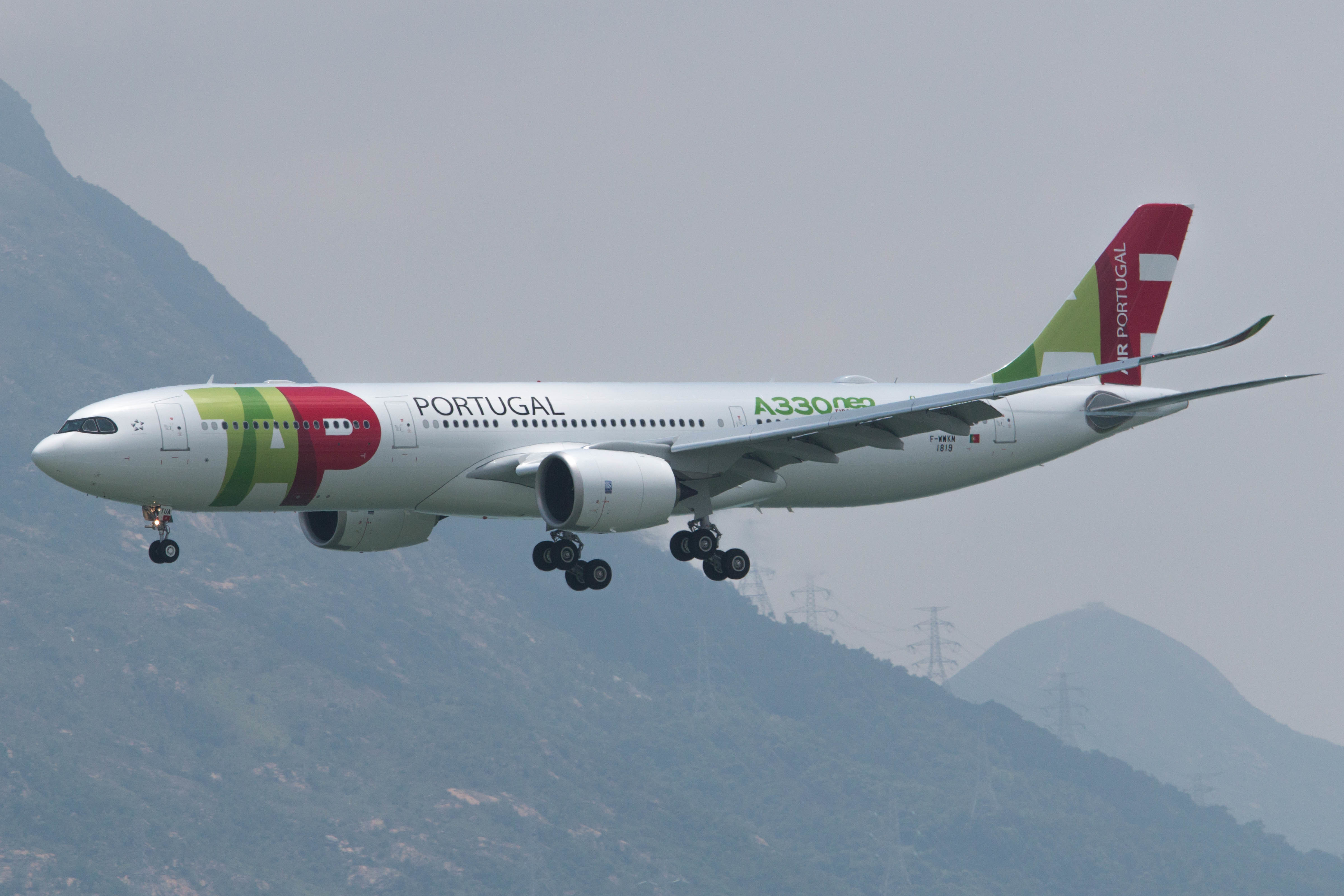 F-WWKM TAP - Air Portugal Airbus A330NEO demonstration flight in Hong Kong